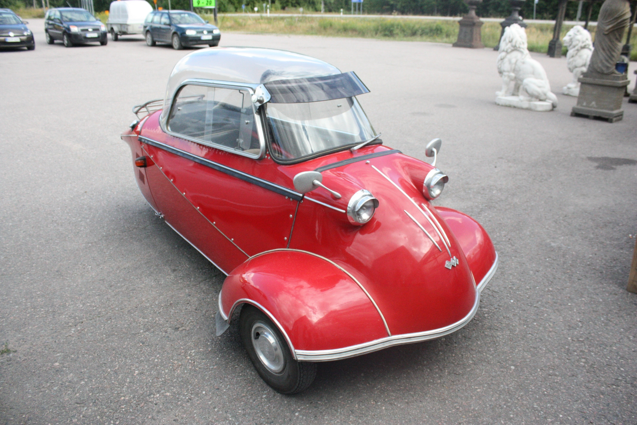 Messerschmitt Kabinenroller KR200 Red, Photographed at Kasvihuoneilmiö, National road 110, Finland 2013